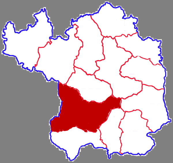 Location of Fu county in Yan'an city, China